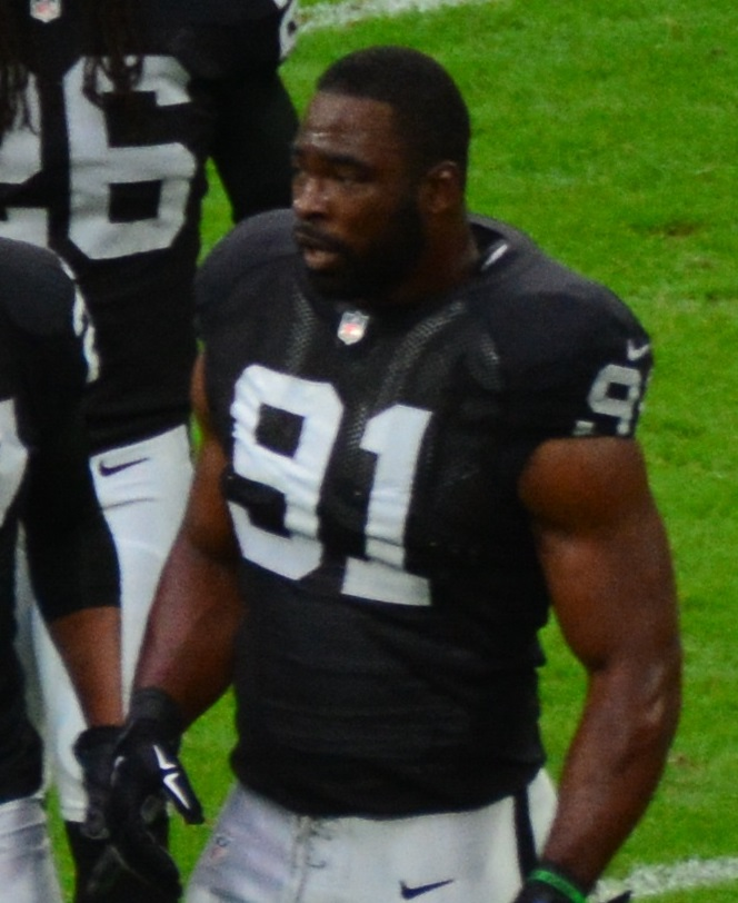 Raiders vs. Dolphins 2014